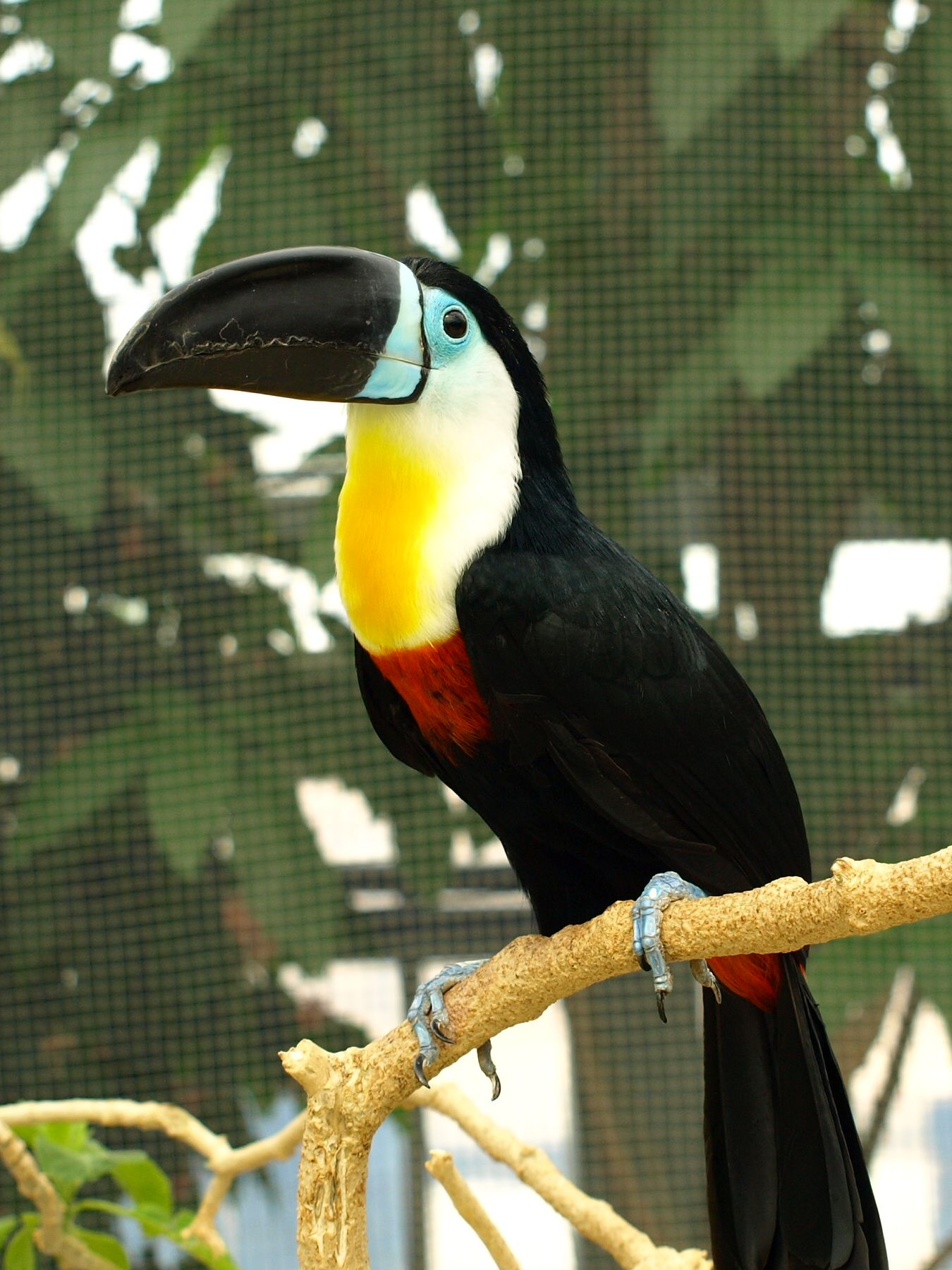 Channel-billed Toucan at Kobe Kachoen, a bird and flower park located on Port Island in Kobe, Japan.